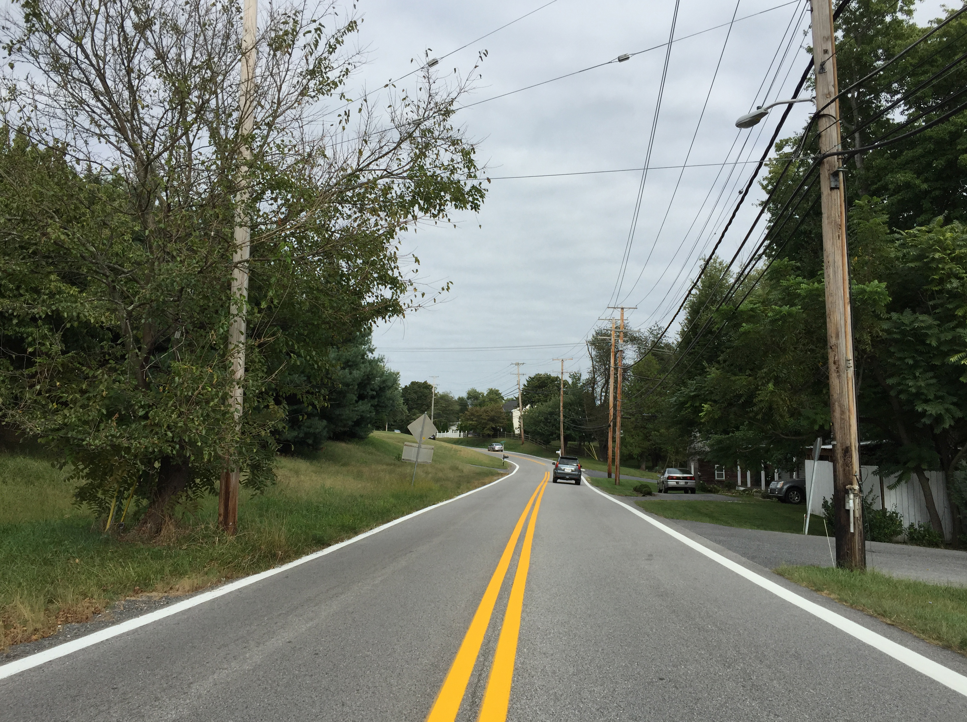 View east along Maryland State Route 985 (Old Frederick Road) just east of Rogers Avenue in Ellicott City, Howard County, Maryland